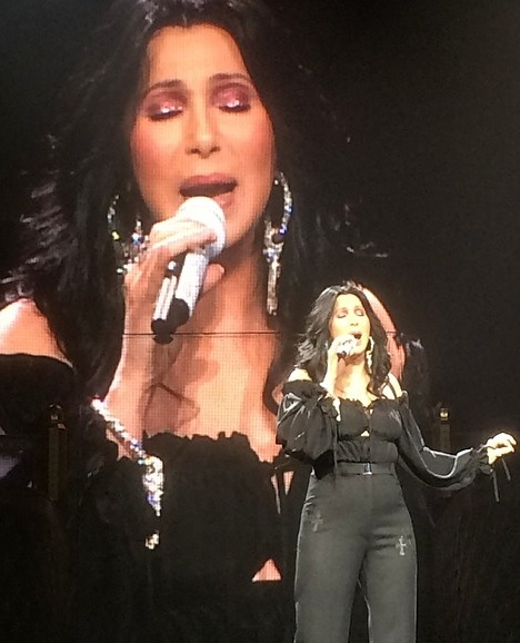 Singer Cher in concert